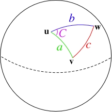 Transferred from en.wikipedia to Commons. The original description page was here. All following user names refer to en.wikipedia. illustration of a spherical triangle for the law of haversines. Original illustration, donated to Wikipedia under the GFDL —Steven G. Johnson